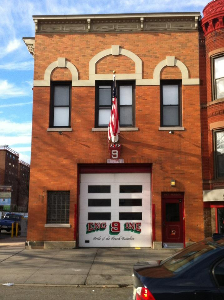 Engine 9 fdjc